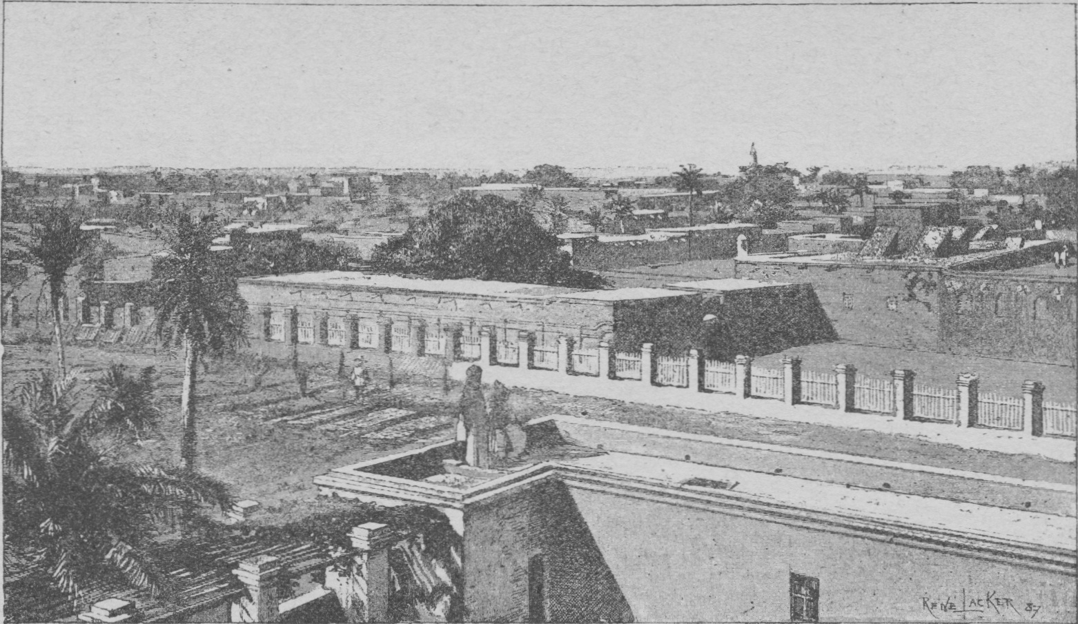 View over Khartoum, from the book "Stanleys expedition till Emin Paschas undsättning" by Alphonse-Jules Wauters, translated into Swedish by O. H. Durmath (1890)